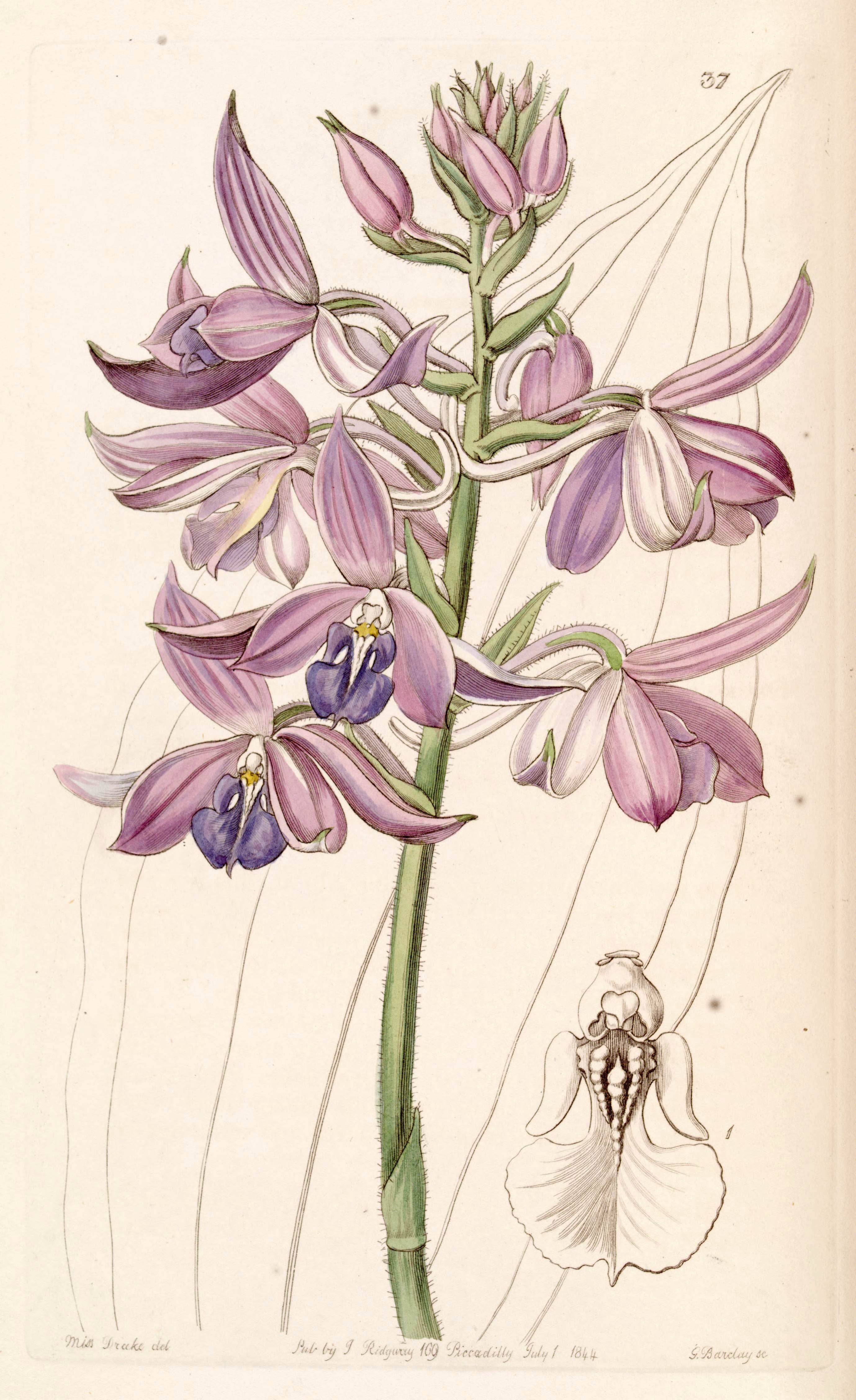 Calanthe sylvatica (as syn. Calanthe masuca)